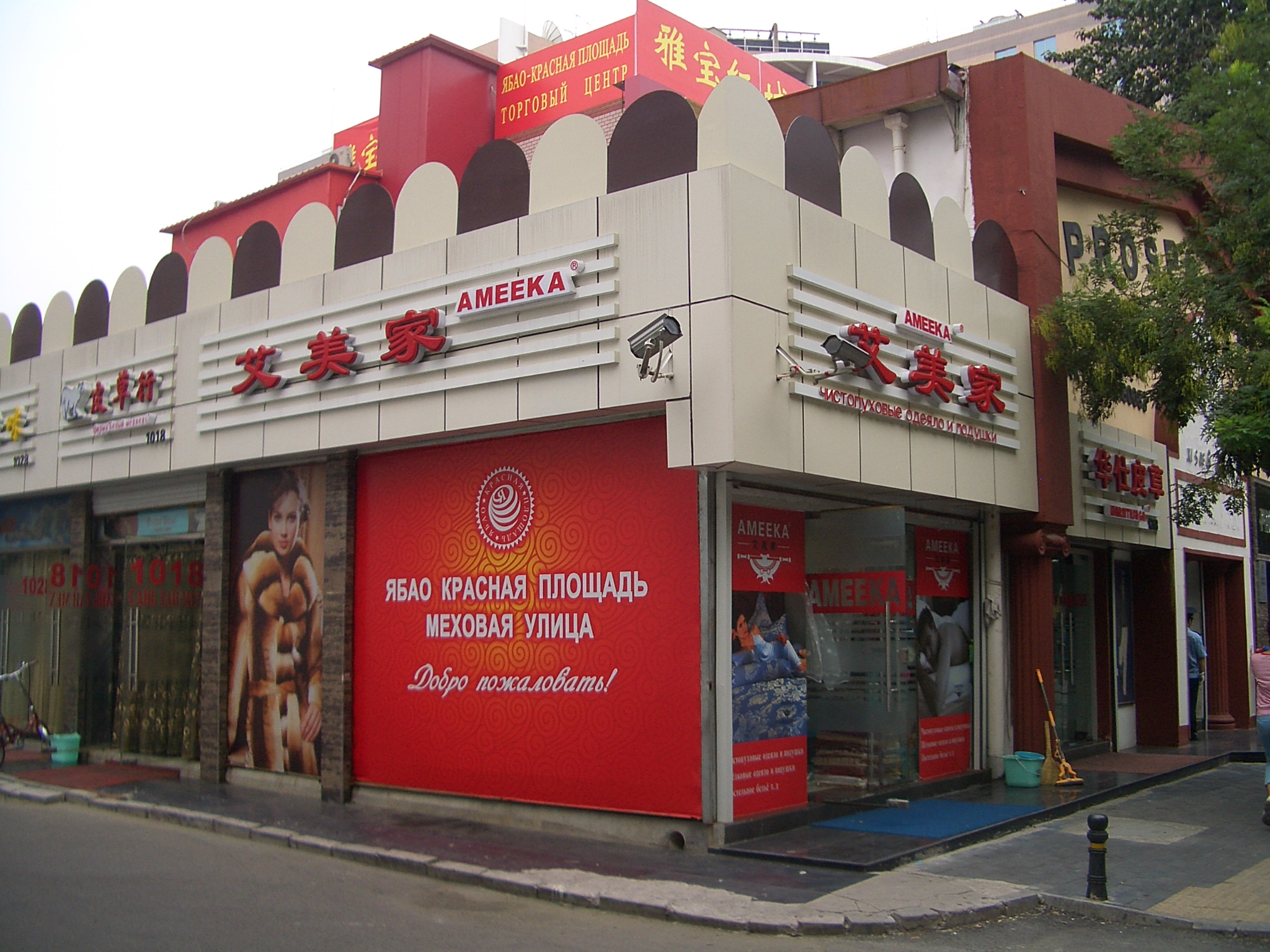 In Yabao Lu (Yabao Street) in Chaoyang District, Beijing